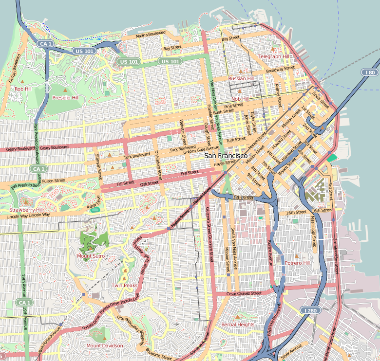 This map of San Francisco was created from OpenStreetMap project data, collected by the community. This map may be incomplete, and may contain errors. Don't rely solely on it for navigation.